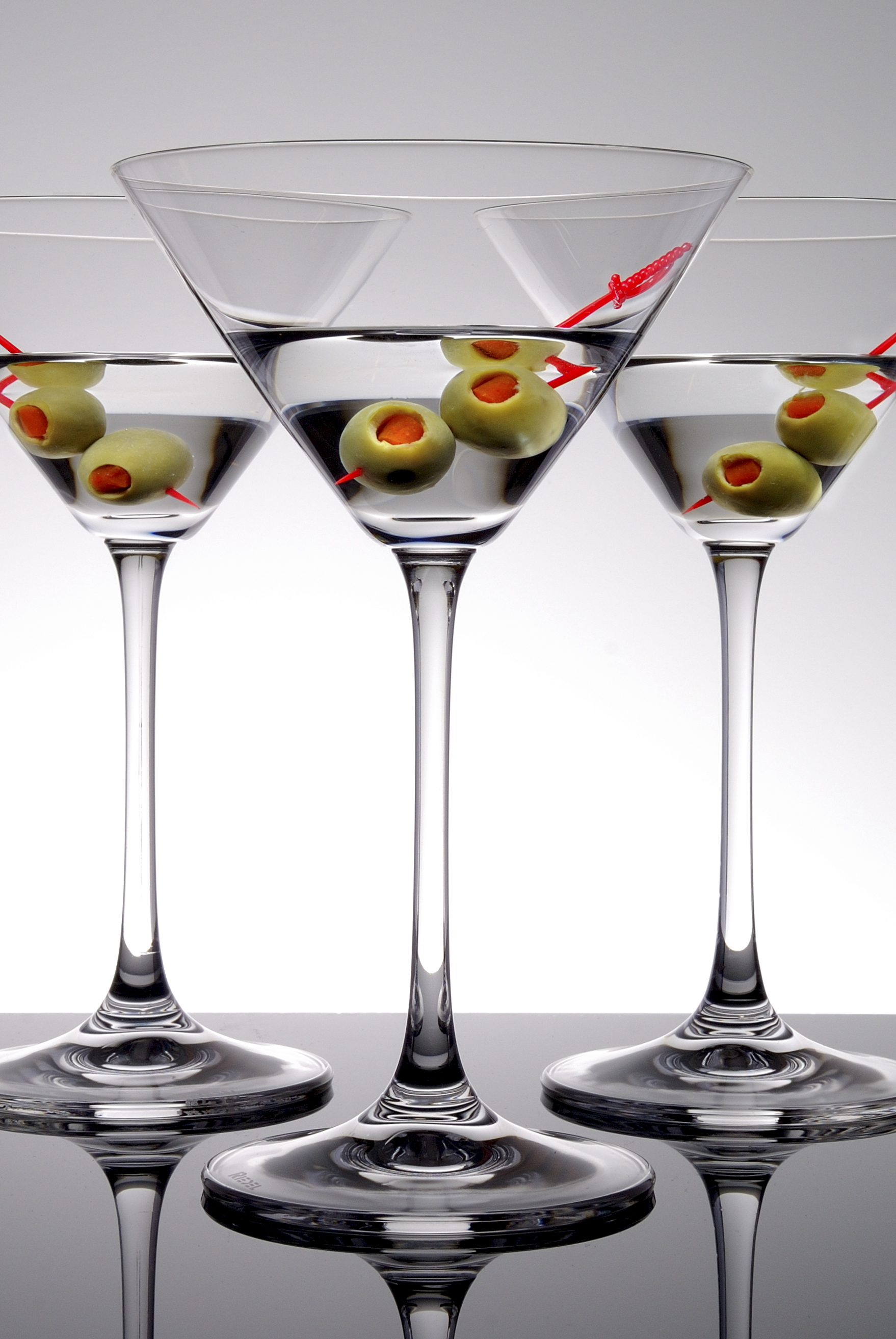 The base is a piece of black opaque glass. Underneath the glass is a Bowens ProLite 60 monolight at about 1/2 power shooting back against a piece of white foam core about 1 ft. away. Above is a Nikon SB-800 at 1/64 throwing some light on the olives. Two black foam core gobos on the left and right for a little extra black in the glass. Thanks for the nice words all. I'm loving this lighting stuff.